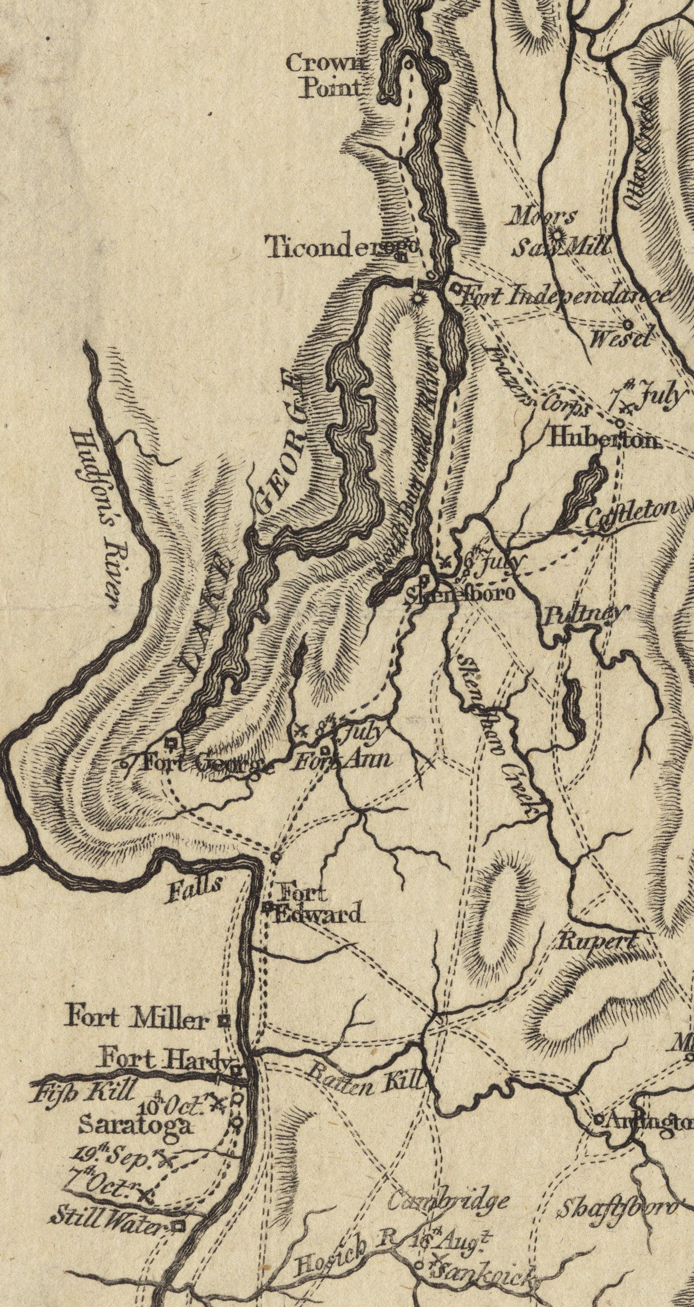 This is a detail from the source map, which shows the geographic area of John Burgoyne's 1777 Saratoga campaign. This detail shows the area around Fort Ticonderoga, including the roads and approaches used by the British and American forces before and after the Battle of Ticonderoga.